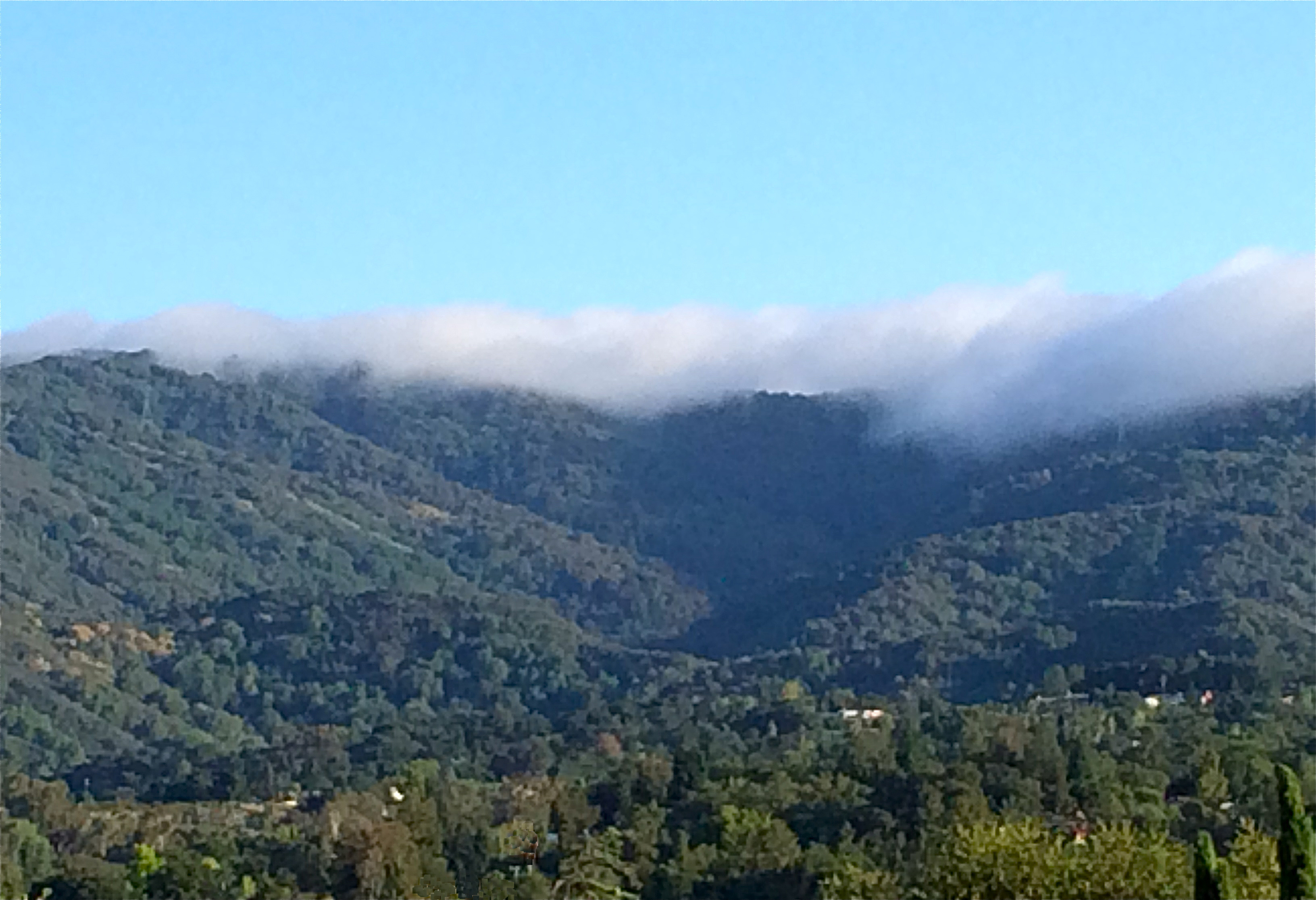 Fog on Black Mountain over Adobe Creek headwaters, Los Altos, California June 2, 2014 at 7pm